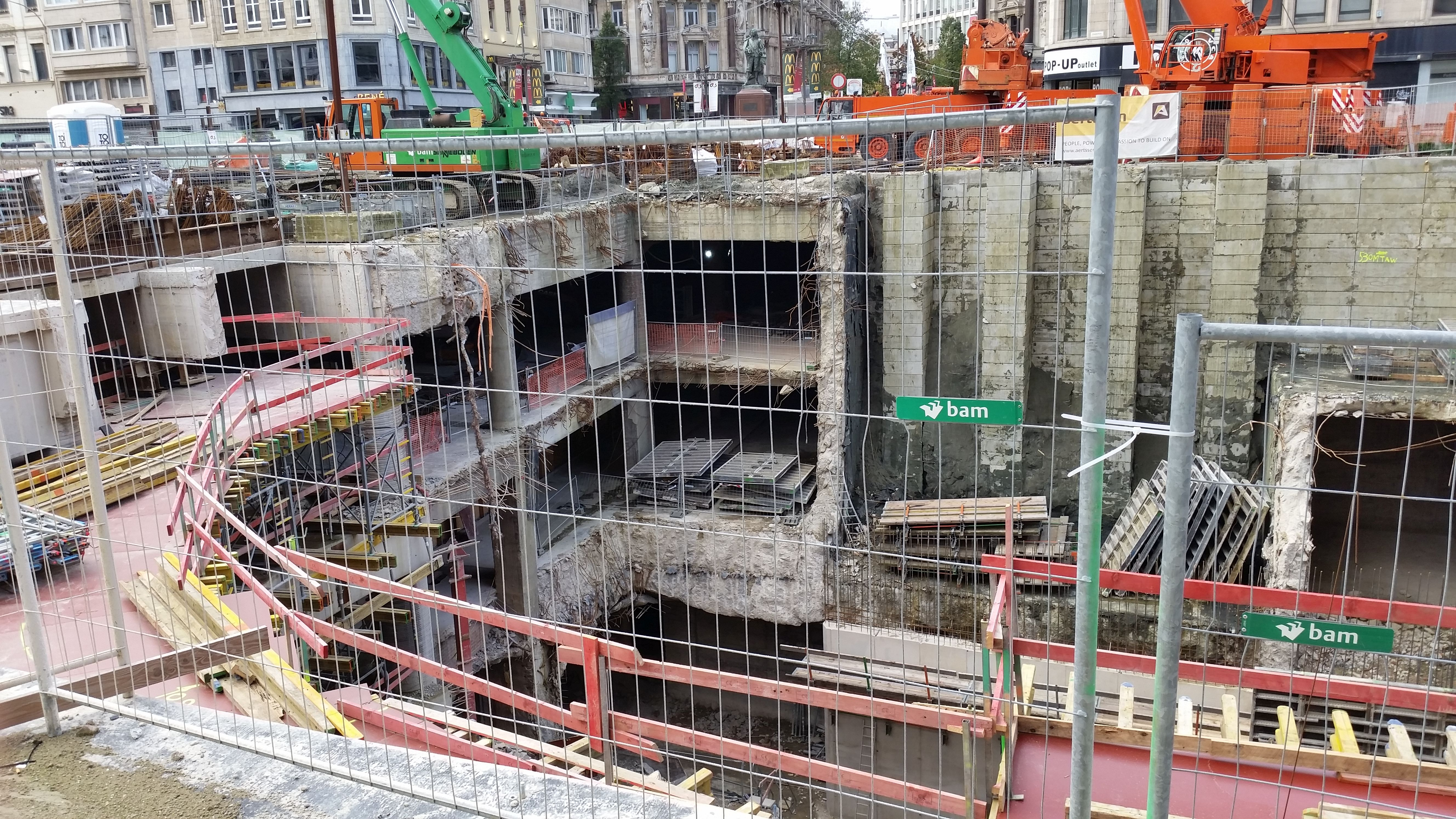 Redevelopment works of Opera Square in Antwerp, Belgium, within the frame of Noorderlijn project. Picture taken on October 29, 2017.